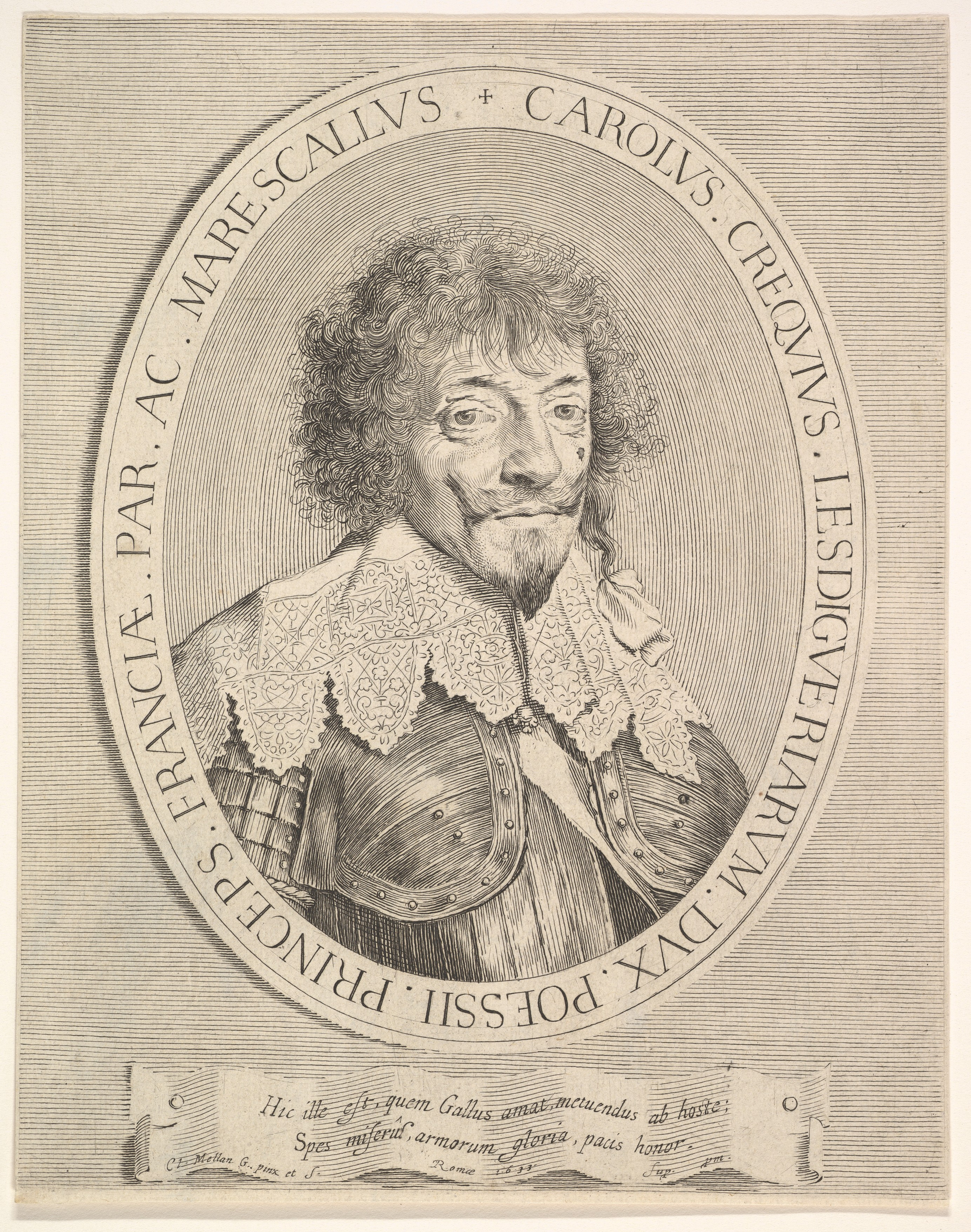 Print; Prints